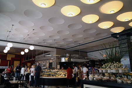 Karl Fazer Café, Helsinki.